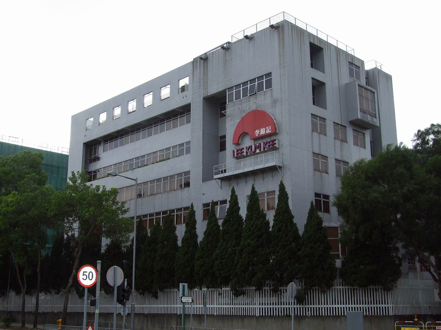 Lee Kum Kee building